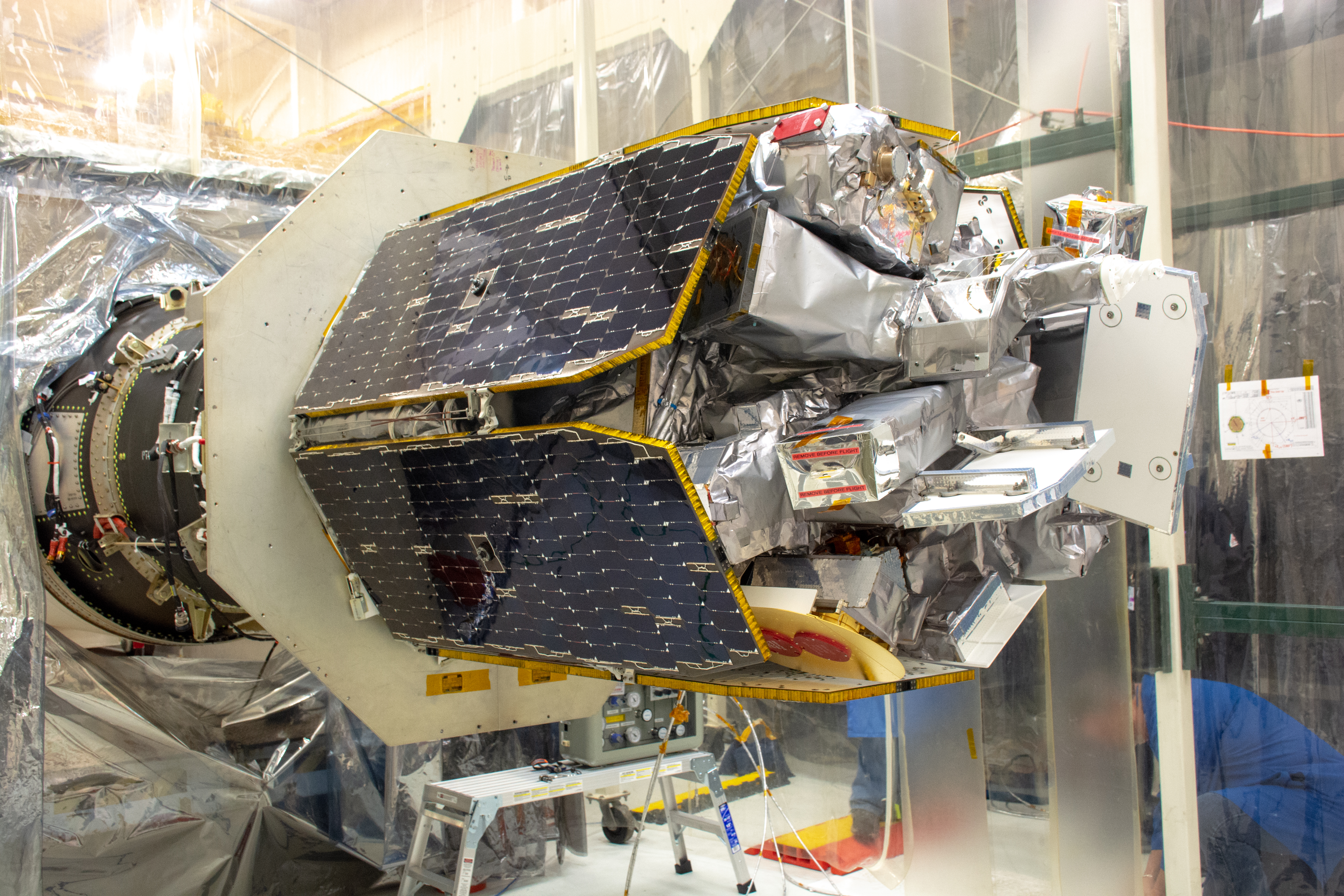 NASA's Ionospheric Connection Explorer (ICON) is attached to the Northrop Grumman Pegasus XL rocket inside Building 1555 at Vandenberg Air Force Base in California on Sept. 10, 2019. Preparations are underway to perform a black light test on Pegasus before the port and starboard payload fairings are installed around ICON. The Pegasus XL rocket, attached beneath the company's L-1011 Stargazer aircraft, will launch ICON from the Skid Strip at Cape Canaveral Air Force Station in Florida. Launch is scheduled for Oct. 9, 2019. ICON will study the frontier of space - the dynamic zone high in Earth's atmosphere where terrestrial weather from below meets space weather above. The explorer will help determine the physics of Earth's space environment and pave the way for mitigating its effects on our technology and communications systems.